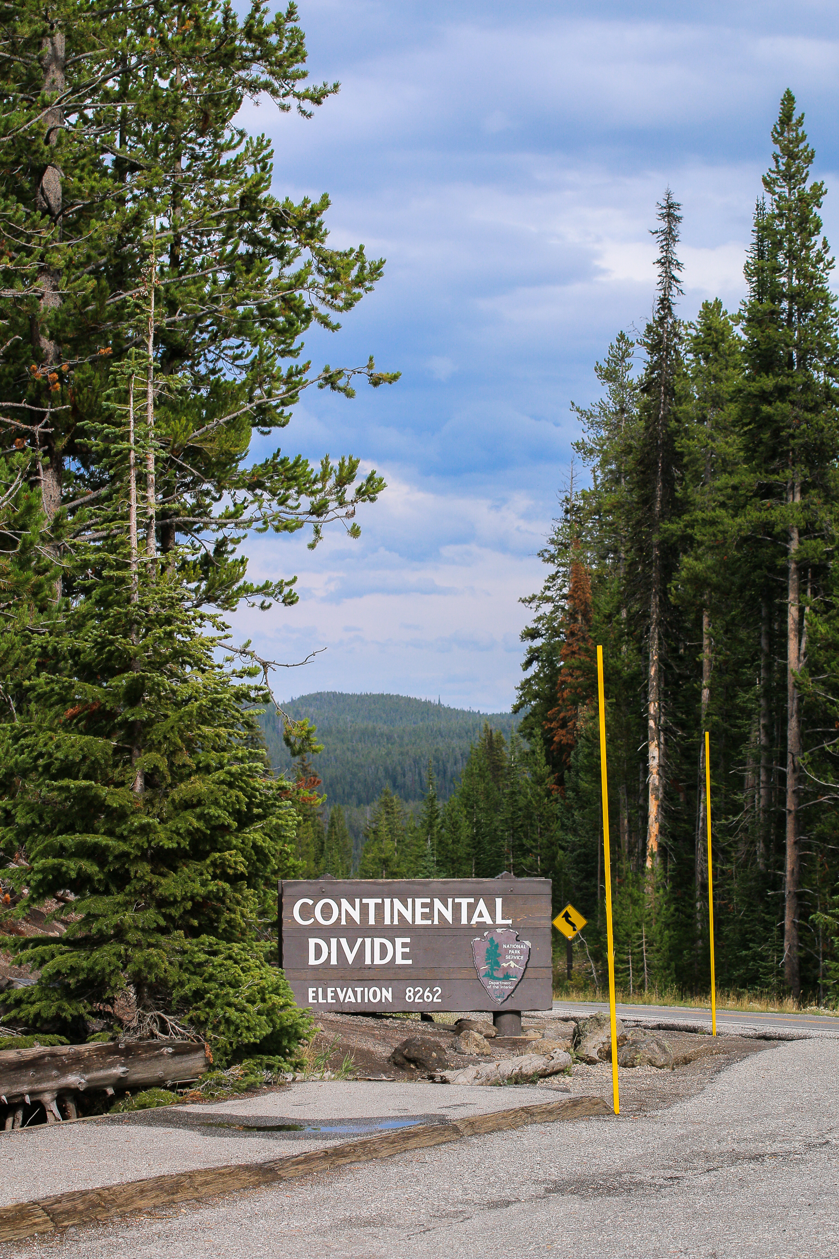 The Continental Divide of the Americas at the Craig Pass in the Yellowstone National Park